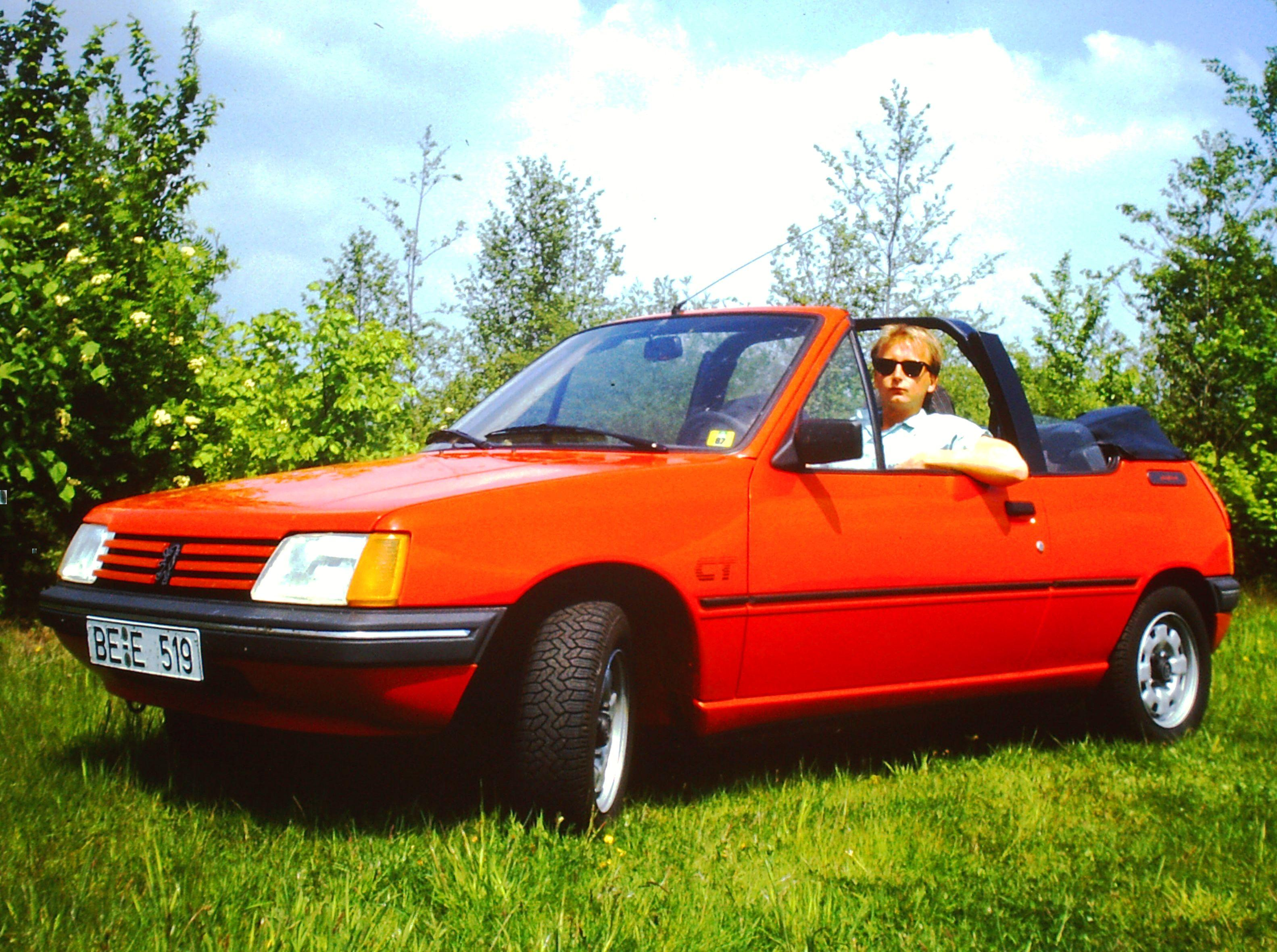 Peugeot 205 CT Convertible. Built in 1986. 59 kW (80 PS), 1360 cm³. Design: Pininfarina (only convertible). Photographed person has given his approval for publication. Personality rights of identifiable person are not infringed. Photo taken in Switzerland 1987 with a miniature camera Minox 35 PL.